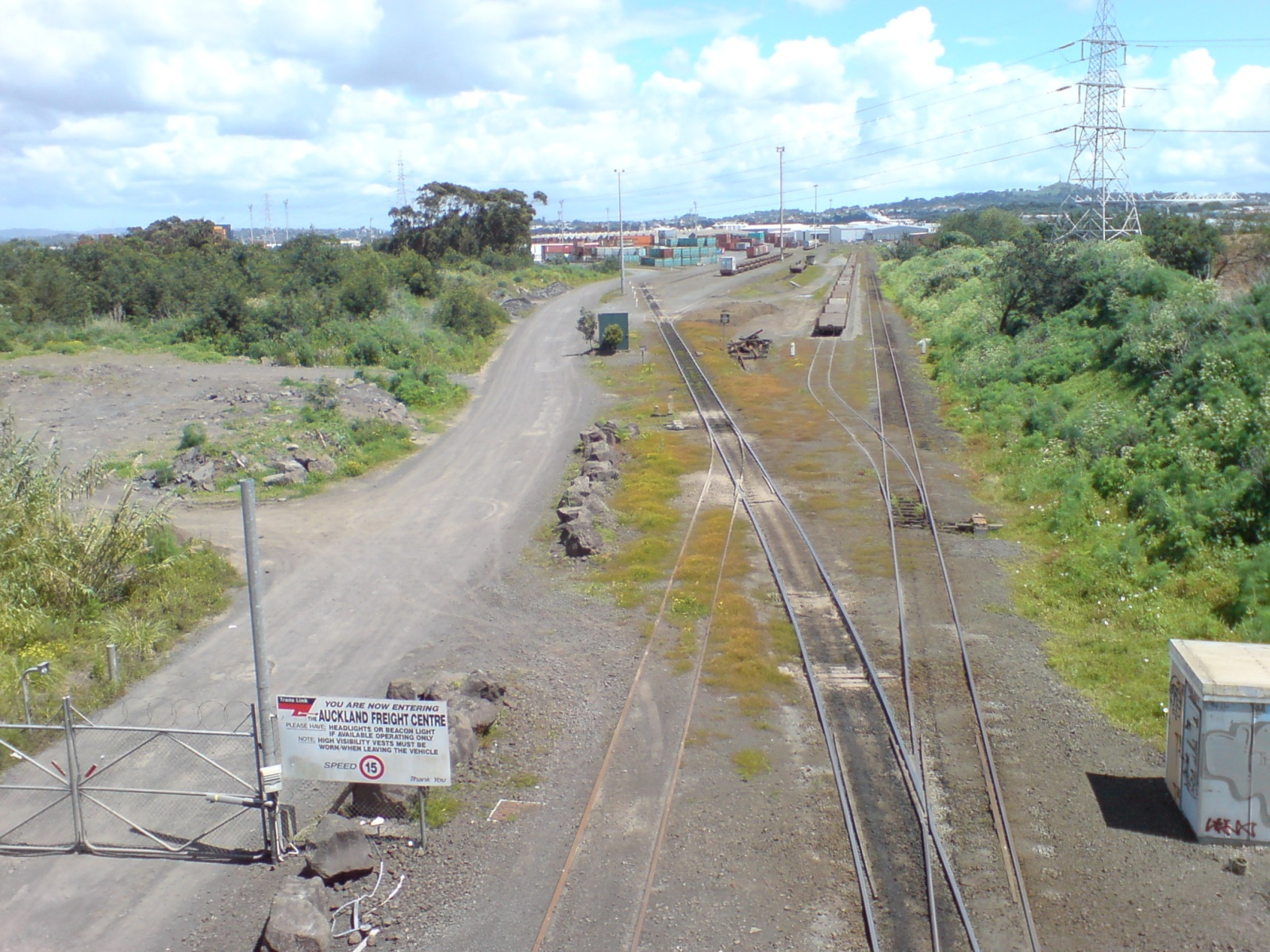 Looking at the Southdown, Auckland City, New Zealand container facilities. Looking westwards from the Waikaraka cycleway bridge. This vista reminded me a lot of a Half-Life 2 scene...